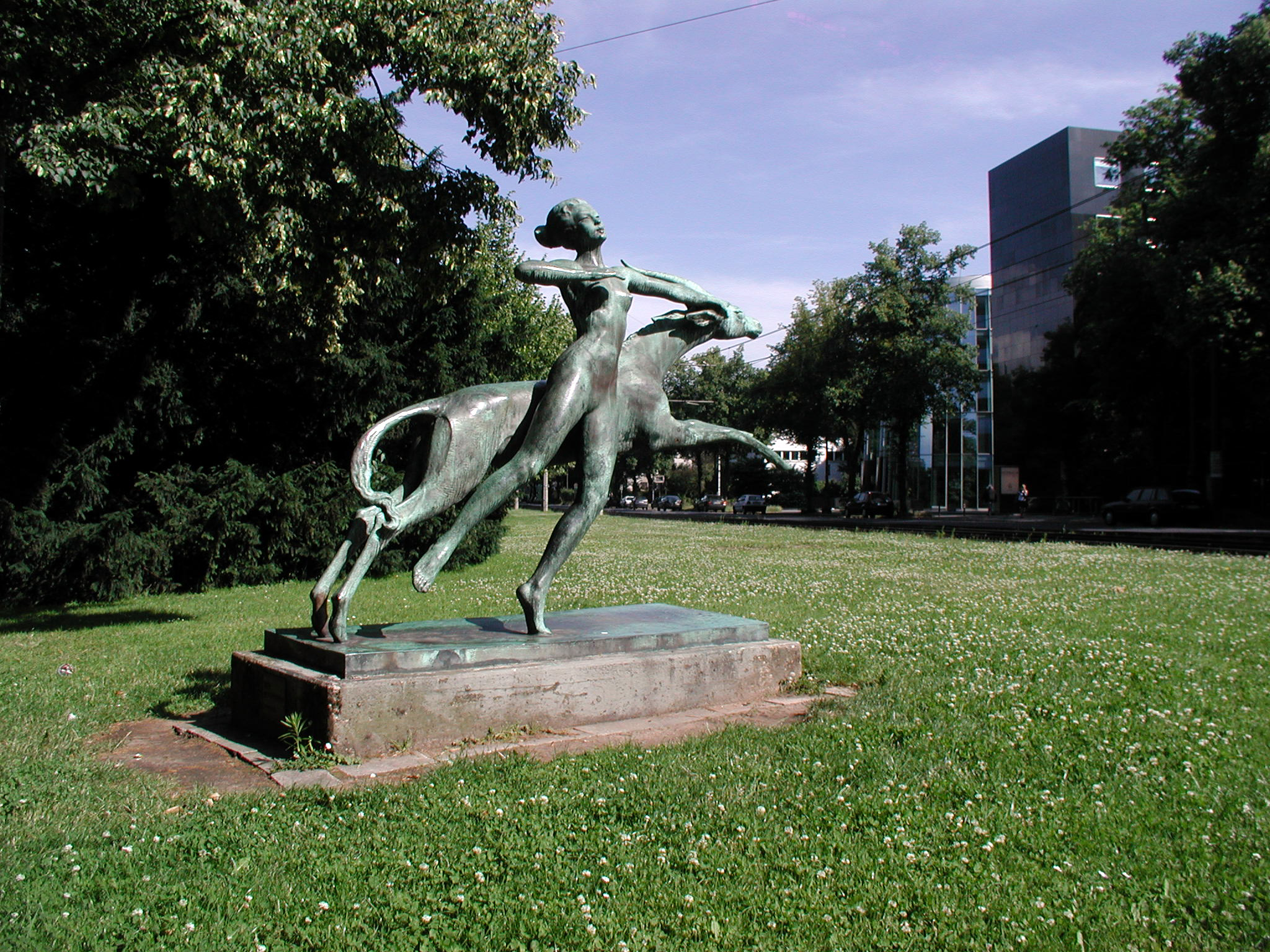 Diana with antelope , artwork Fritz Behn (1916)